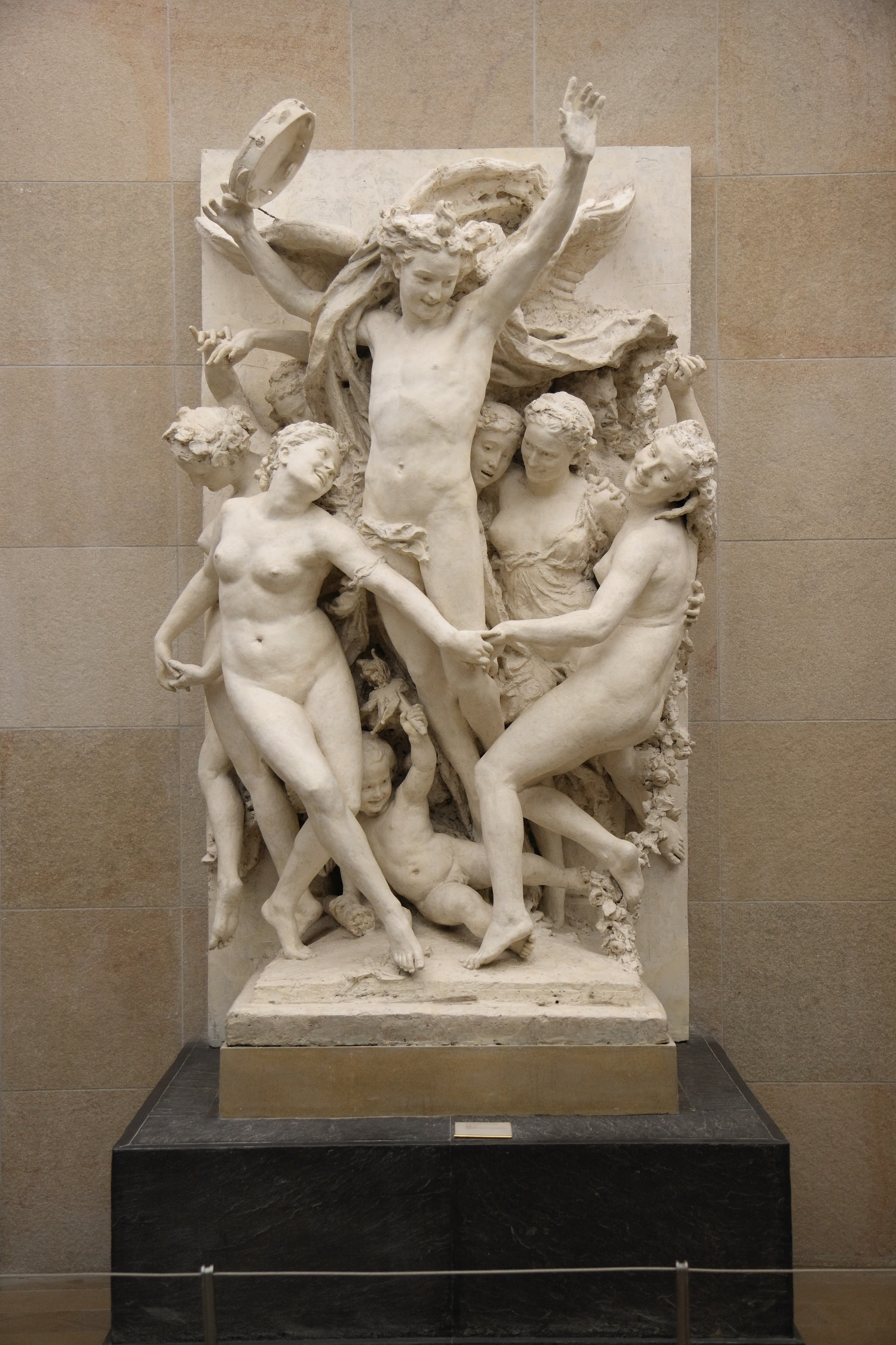 Original sculpture La danse [The Dance] (1868) by Jean-Baptiste Carpeaux, whose copy by Paul Belmondo can be seen on the Opera Garnier, Paris. Taken in the Musée d'Orsay, Paris.